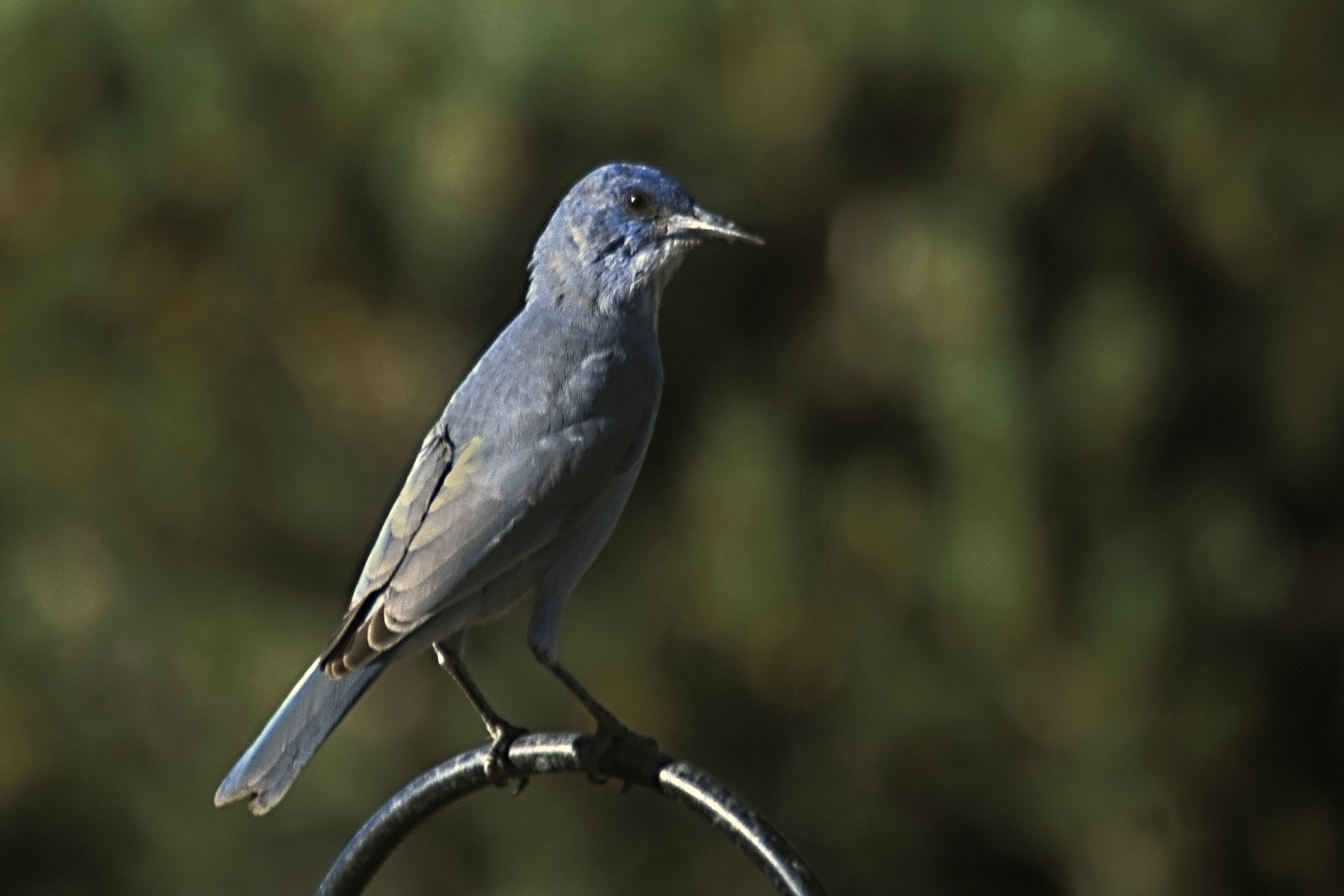 The Pinyon Jay is somewhat timid and not often seen.